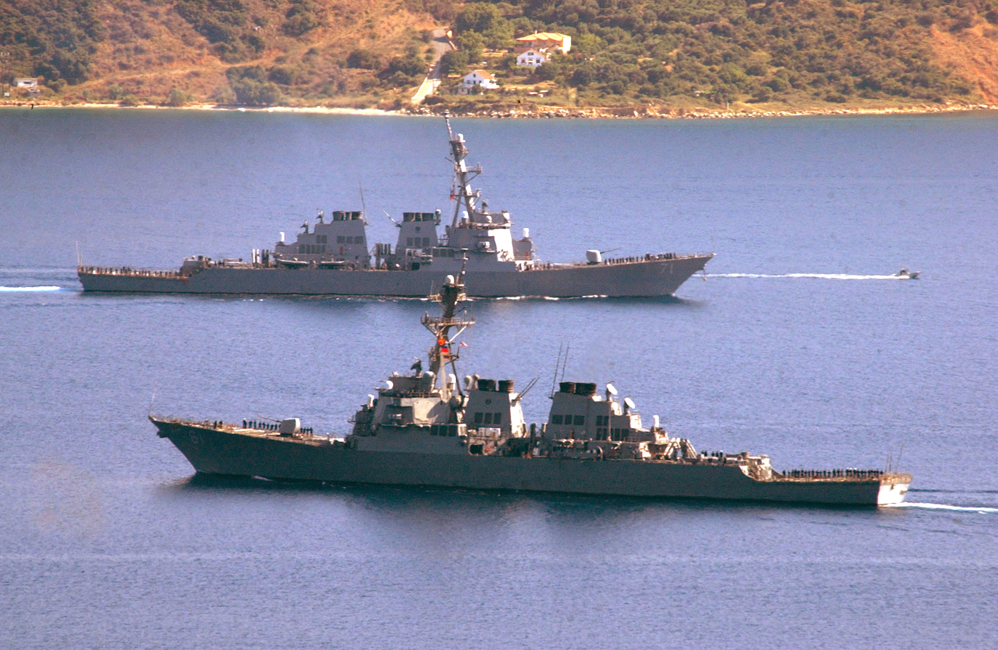 040625-N-0780F-070 Souda Bay, Crete, Greece (June 25, 2004) - The guided-missile destroyer USS Ross (DDG 71), top, cruises into Souda Harbor for a brief port visit as the guided-missile destroyer USS Ramage (DDG-61) departs following a brief stay in the eastern Mediterranean port. Both Arleigh Burke-class destroyers are assigned to Destroyer Squadron Two Eight (DESRON 28) and homeported in Norfolk, Va. Both ships are currently in the Mediterranean Sea conducting a regularly scheduled deployment. U.S. Navy photo by Paul Farley (RELEASED)